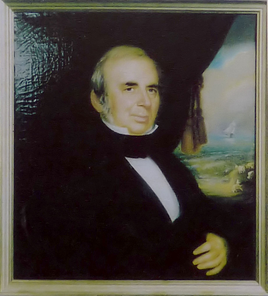 Oilpainintg of Christian Carl Westphal